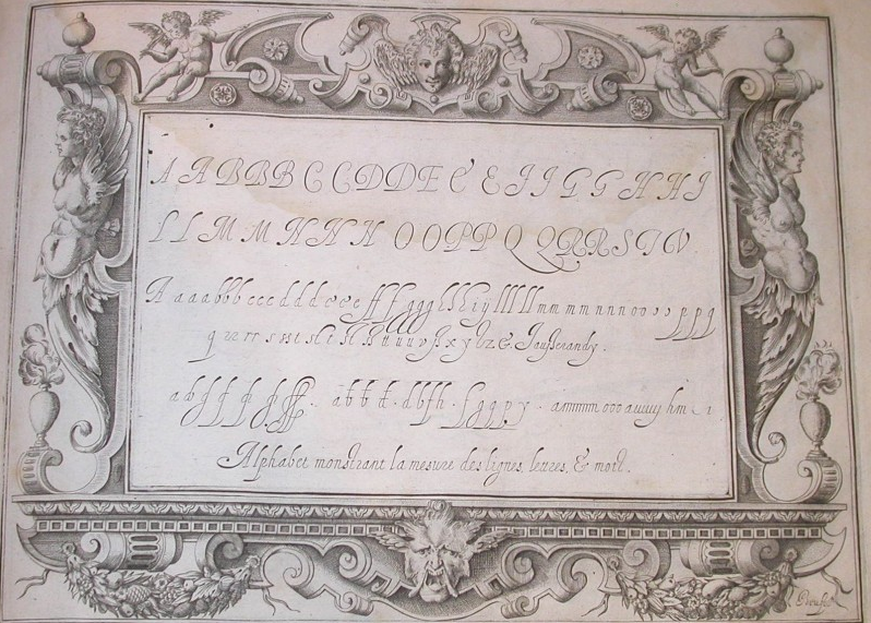 An alphabet from Jausserandy's 'Miroir d'escriture' (1600). (AD Lozère)